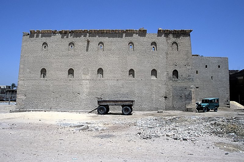 Enclosure wall of the Red Monastery in the governorate of Sohag, Egypt